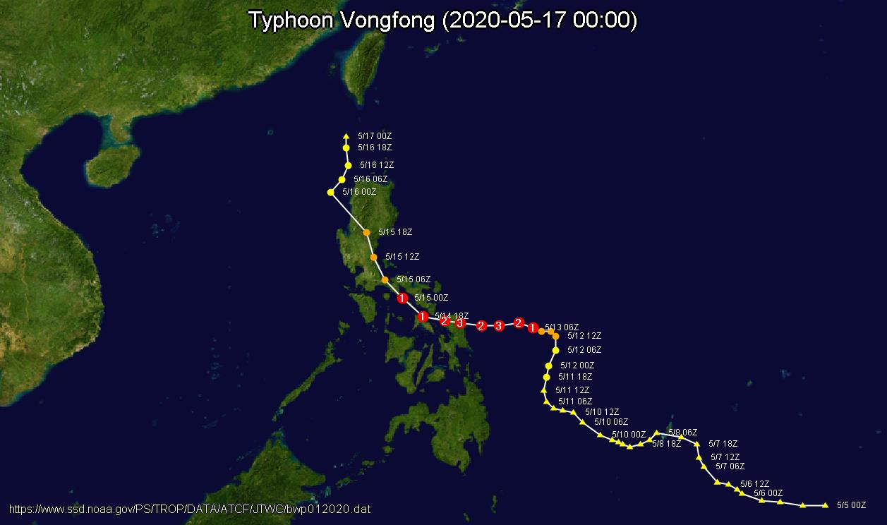 Typhoon Vongfong (2020) map Saffir–Simpson scale ➎: Category 5; ➍: Category 4; ➌: Category 3; ➋: Category 2; ➊: Category 1; : Tropical storm; : Tropical depression Storm type : Tropical cyclone; : Subtropical cyclone; : Extratropical cyclone / Remnant low / Tropical disturbance / Monsoon depression